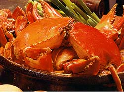 shanghai-restaurant